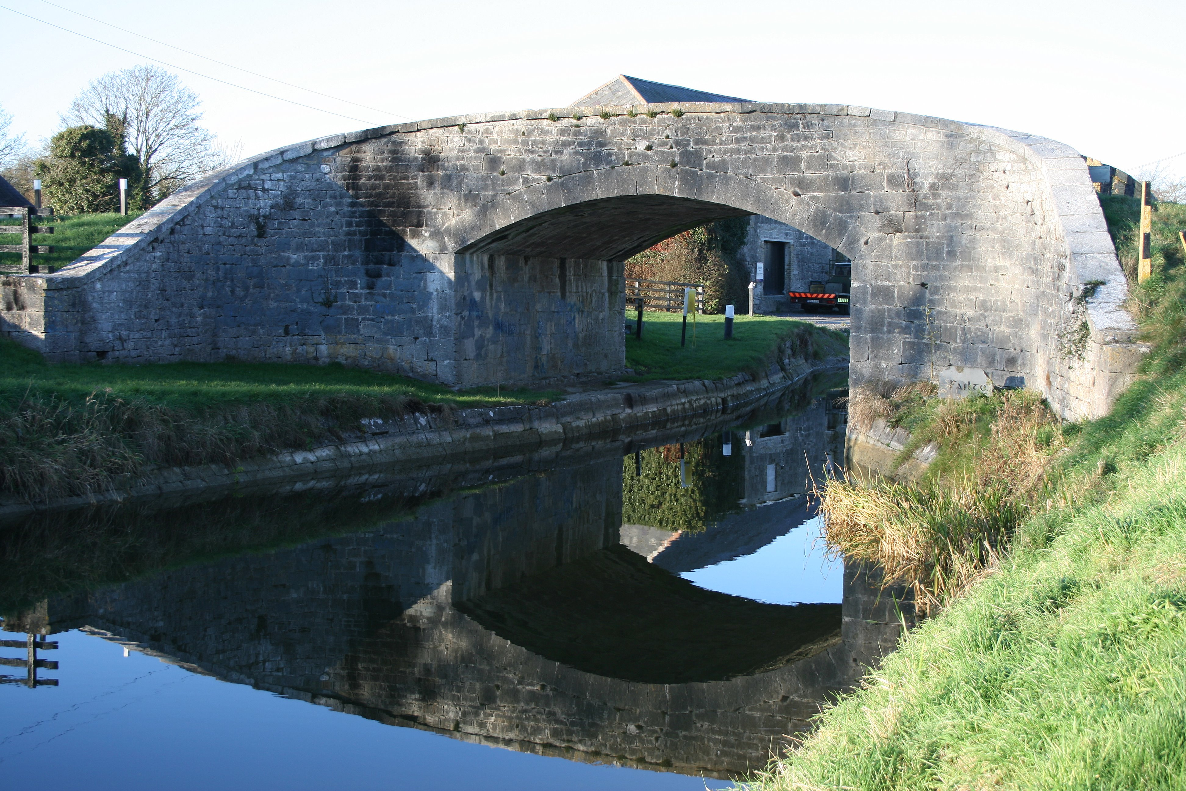 The R427 bridging over the Grand Canal at Vicarstown, County Laois, Ireland